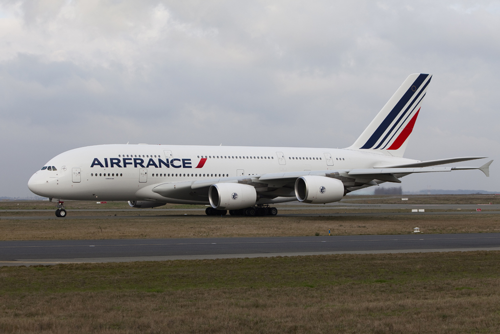 F-HPJA A380 AFR on his way to New York JFK